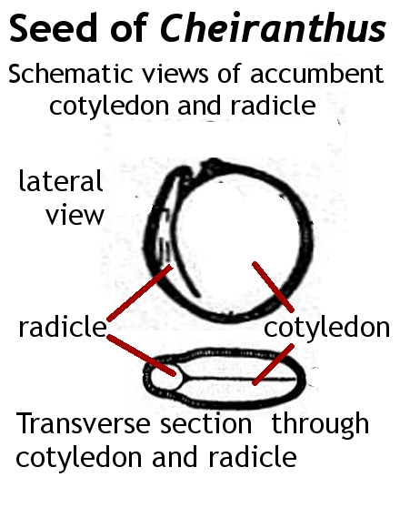 Accumbent cotyledon schematic diagrams. Shows the accumbent arrangement of the cotyledons and radicle in an accumbent embryo such as in the seed of a Cheiranthus species. The edges of the cotyledons lie alongside the radicle.